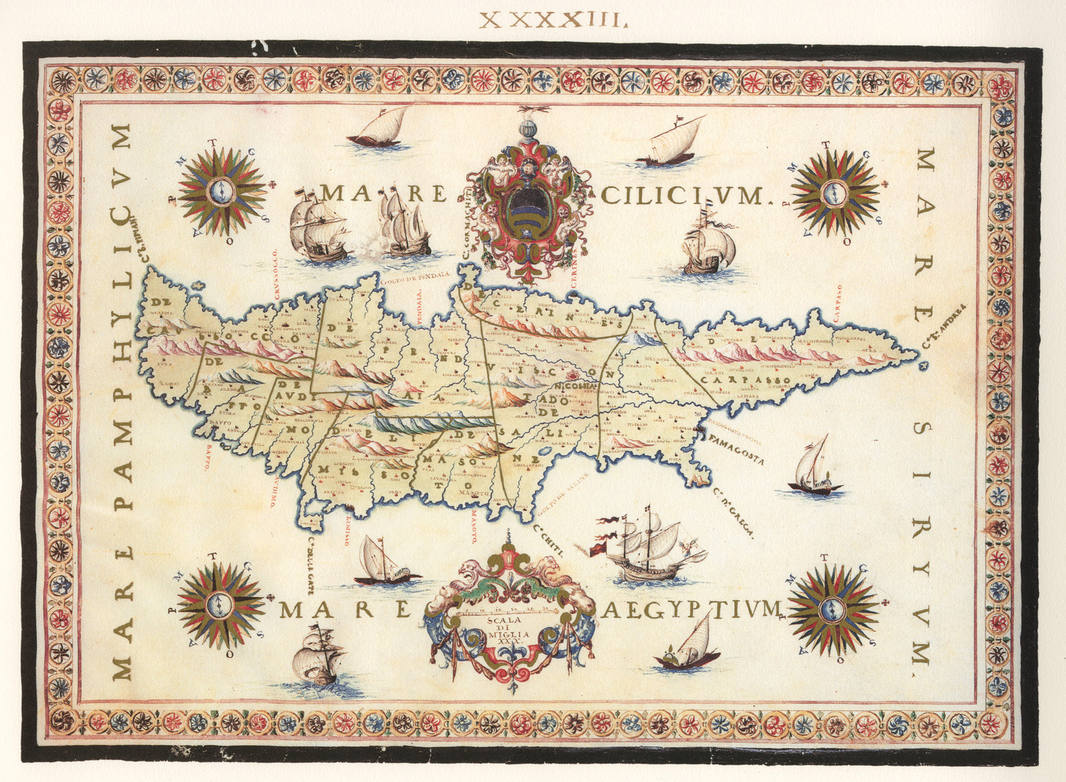 Isola di Cipro - Francesco Basilicata - 1618